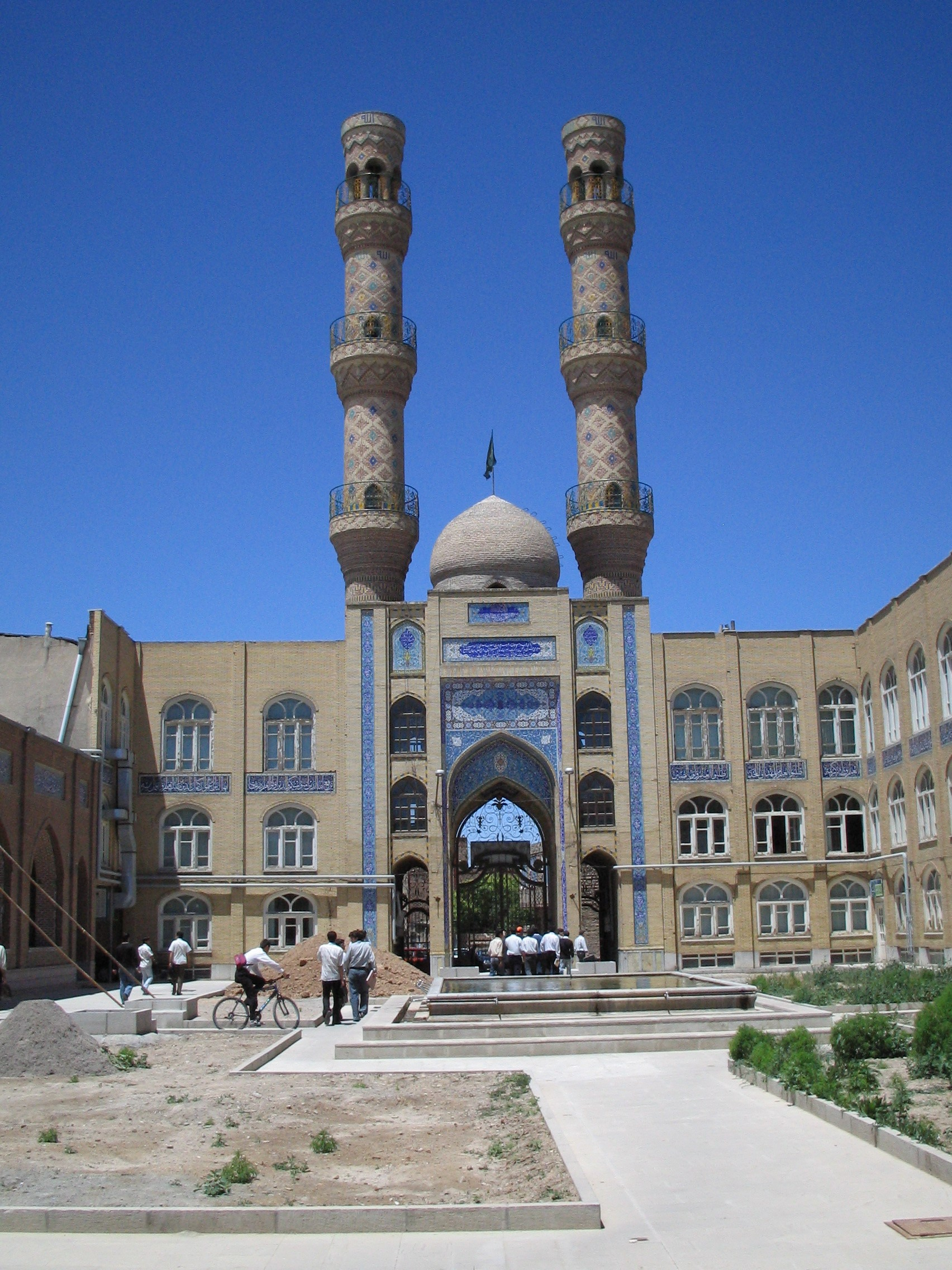 Masjed-e Jomeh in Tabriz (Iran) under renovation.